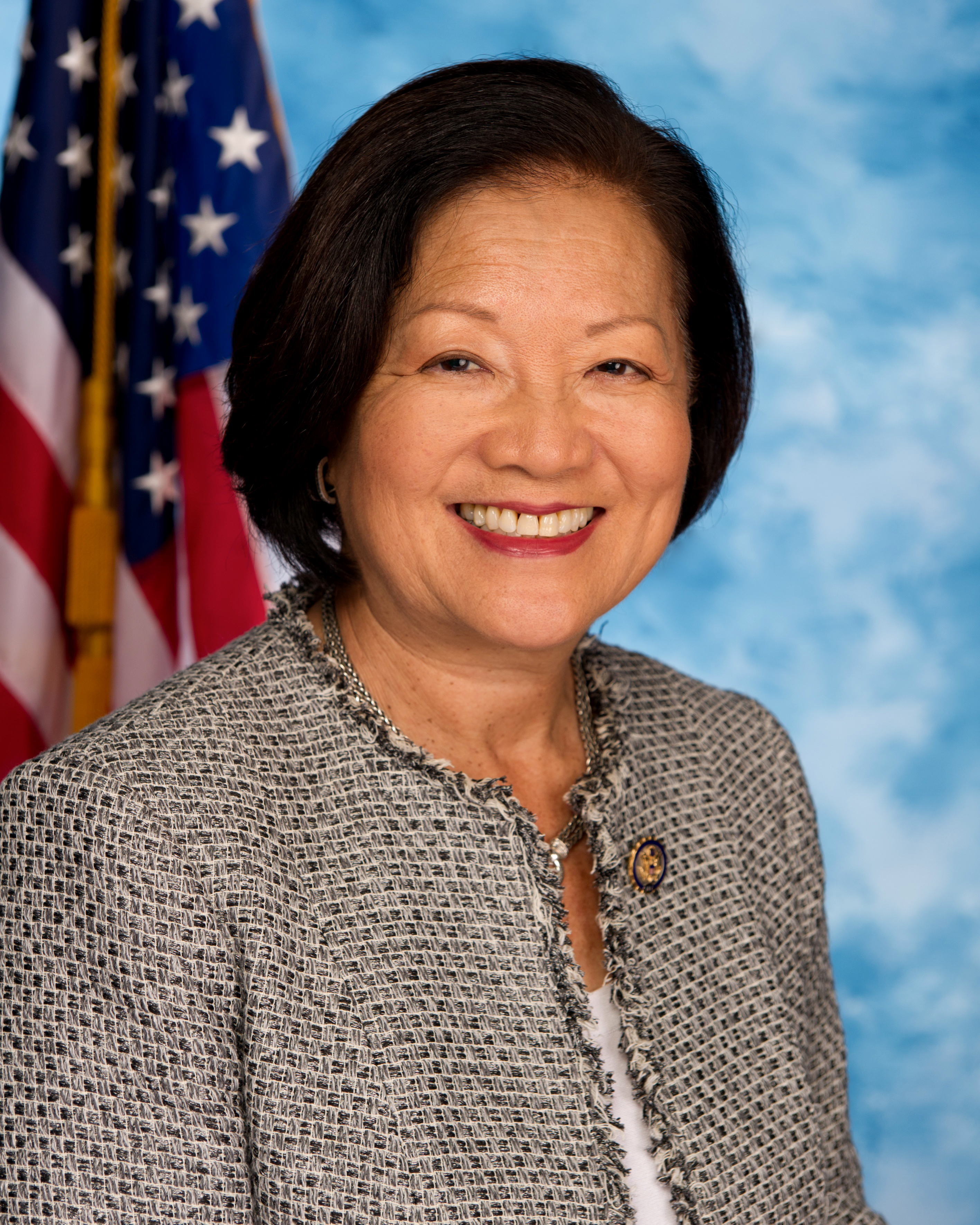 Official portrait of Congresswoman Mazie Hirono.